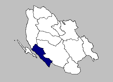 Self-made map of the Karlobag municipality within Lika-Senj County.